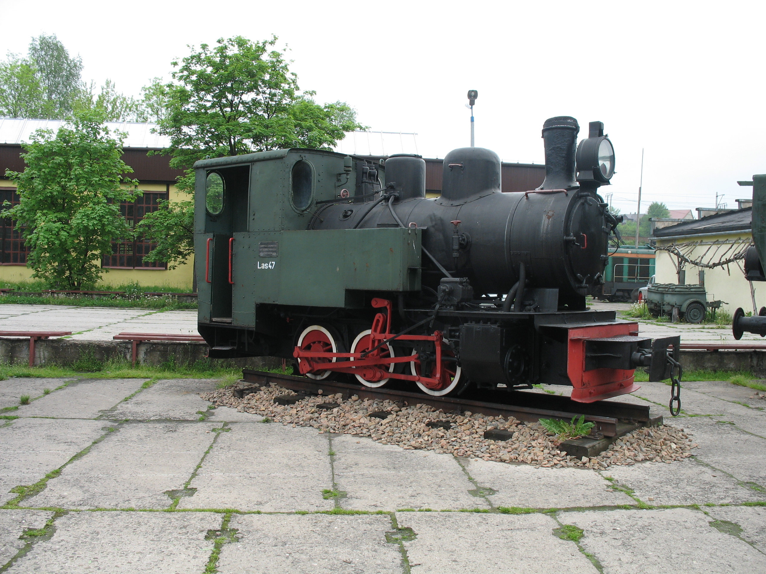 Polish narrow-gauge locomotive Las-47 (Las series). The railway museum in Chabówka, Poland